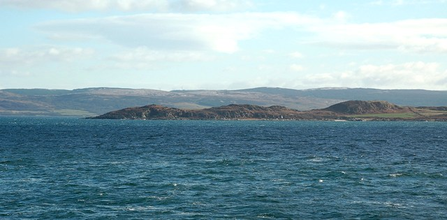 Gigha Island A long-distance shot, viewed from the Islay ferry on a fine February afternoon.